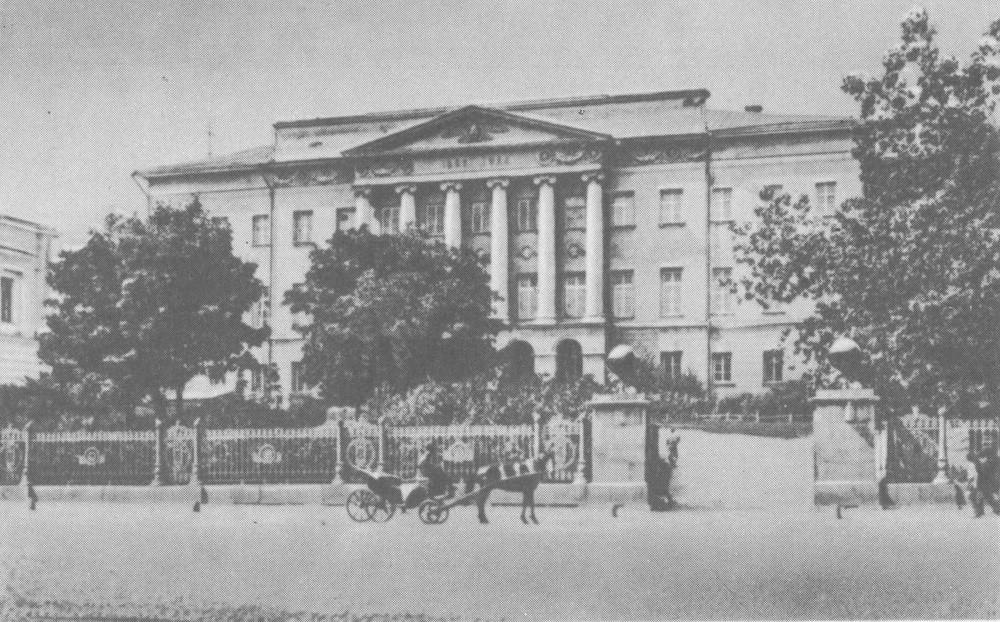 Russian Yevgeny Vakhtangov (1883-1922)